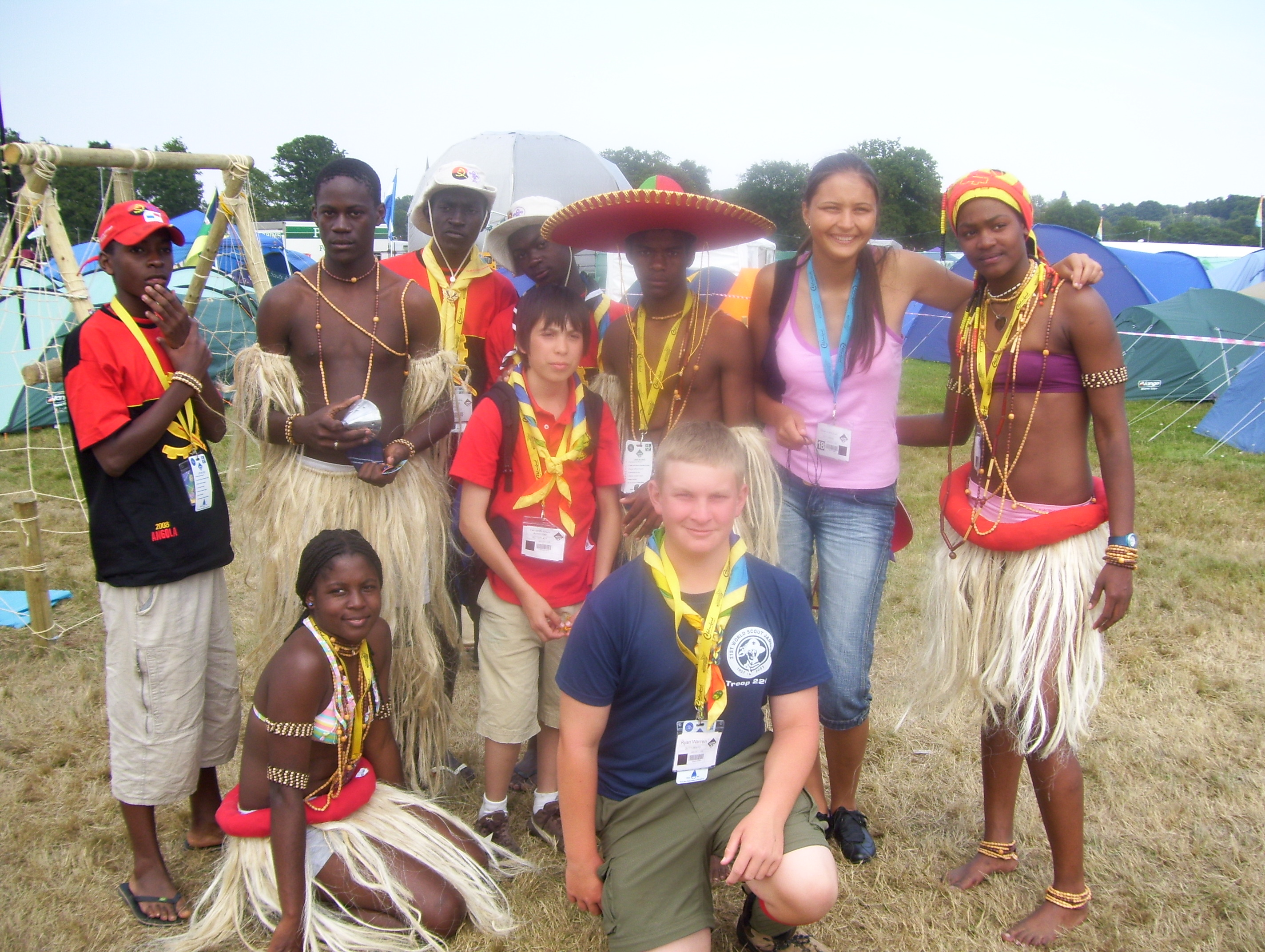 Group of mostly African Scouts at the 2007 World Jamboree